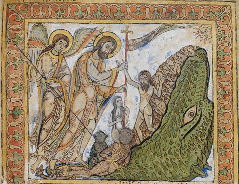 The Harrowing of Hell. Illustration from the St Swithun Psalter/Winchester Psalter.